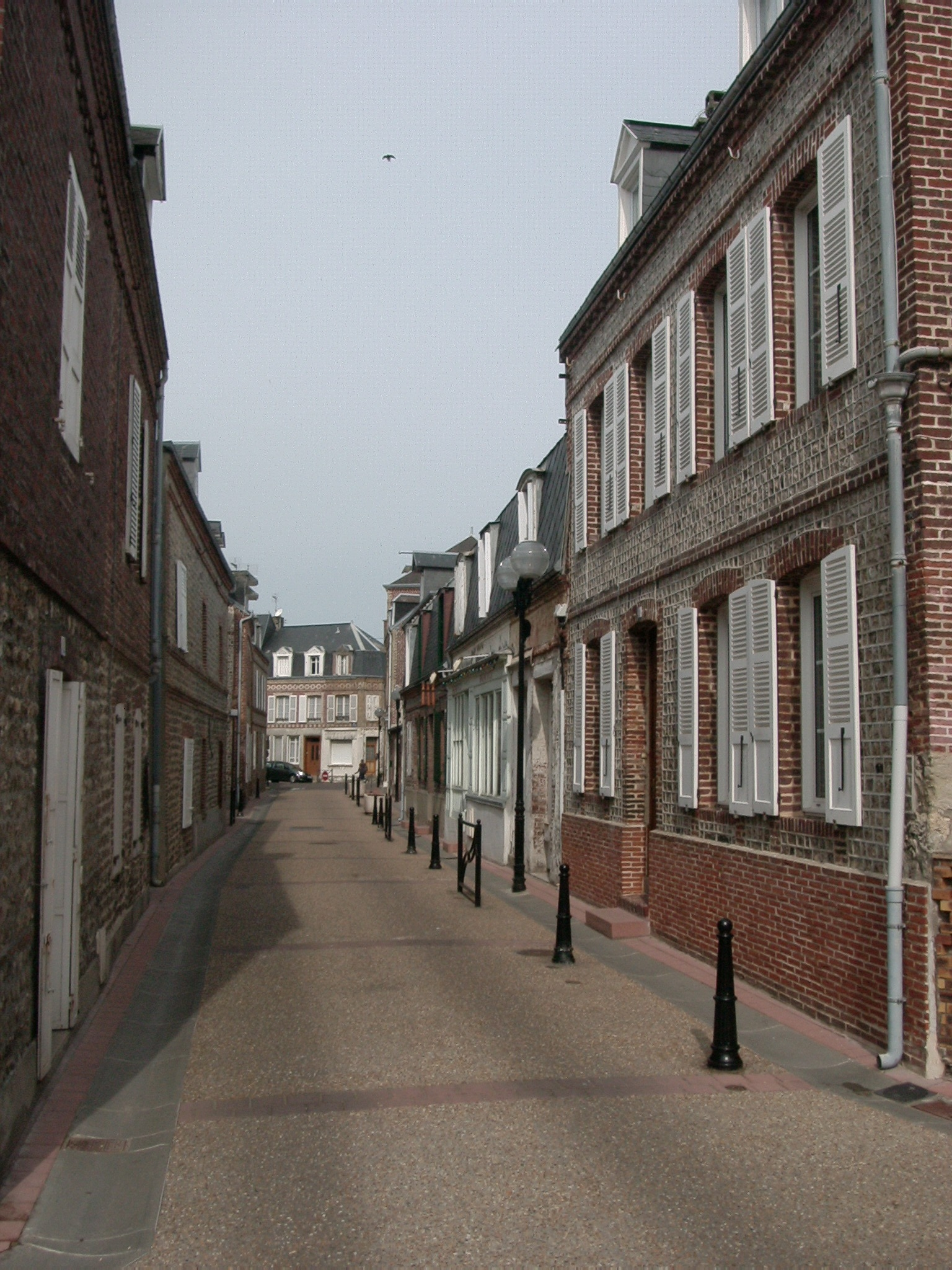 Fischerhäuser aus dem 19. Jahrhundert in Étretat (Normandie/Frankreich) Datum: 06.05.2011 Urheber: M. Pfeiffer alias Benutzer:Gordito1869 Quelle: privates Fotoarchiv des Urhebers